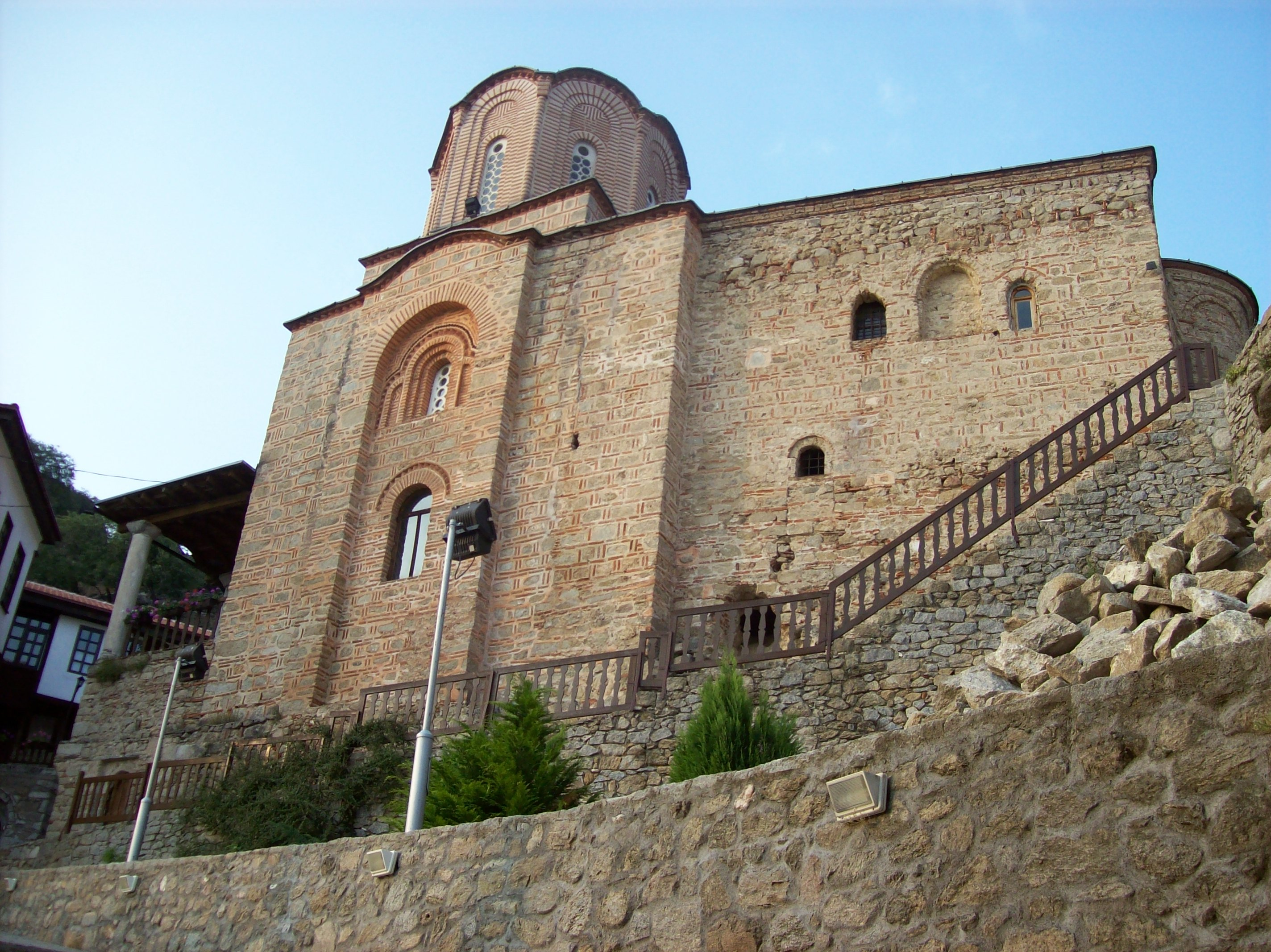 St. Michael the Archangel Church (Varoš Monastery), Macedonia